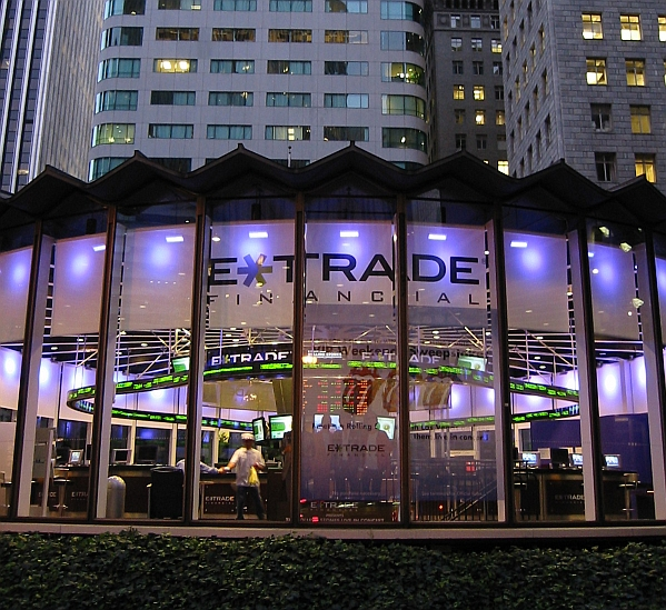 E*Trade Financial Center, Market Street, San Francisco.